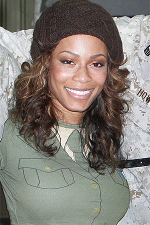 WWE divas Kristal and Melina (not seen in this crop) at Habbaniya, Iraq visiting the Marines assigned to 3rd Battalion, 2nd Marine Regiment to show their support for U.S. troops.